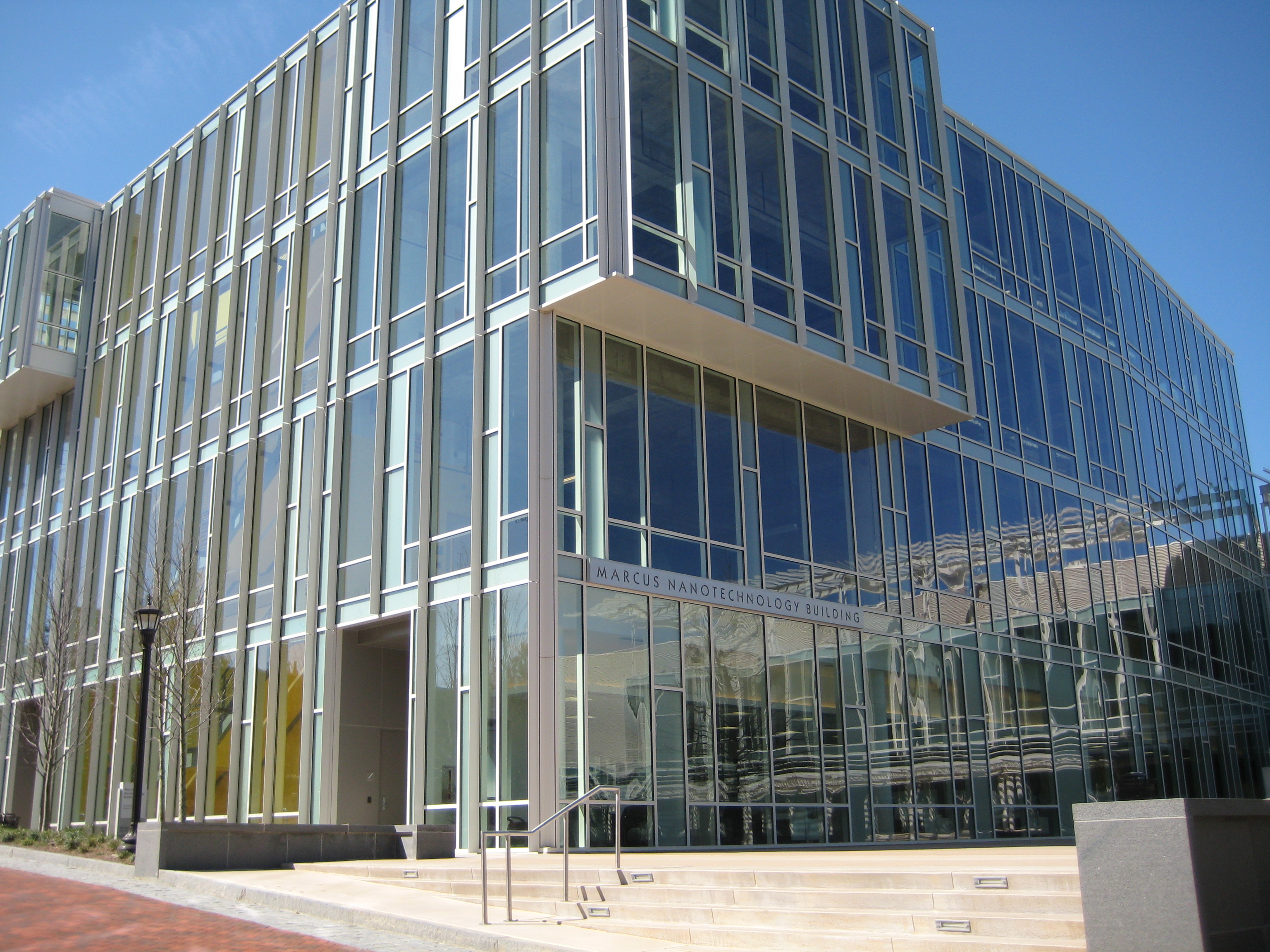 The Marcus Nanotechnology Research Center at the Georgia Institute of Technology. This is also on flickr here